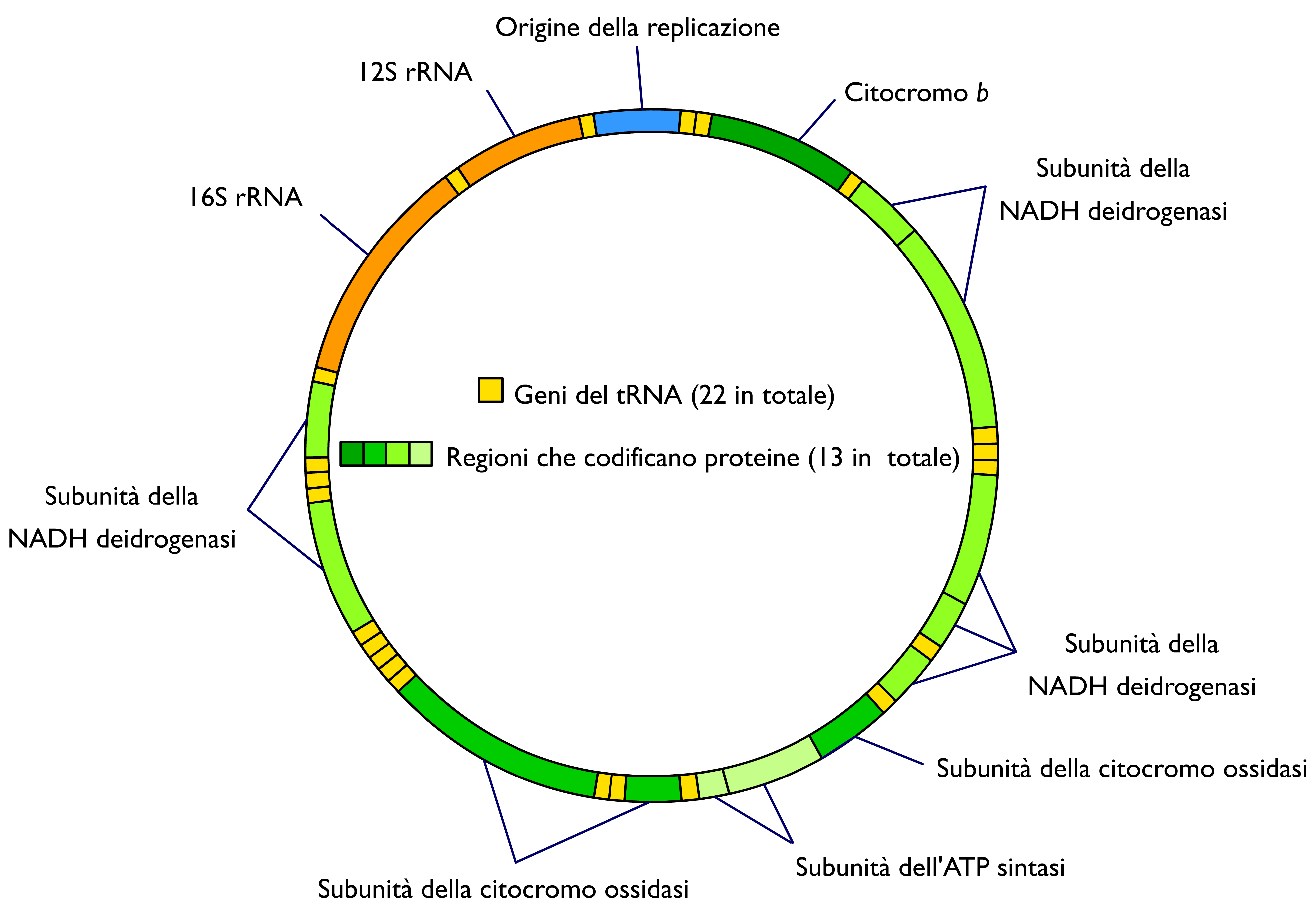 Organization of human mitochondrial DNA